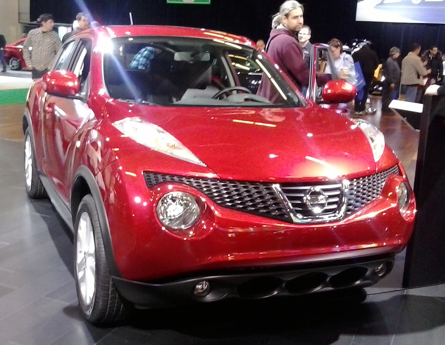 2013 Nissan Juke photographed in Montreal, Quebec, Canada at the 2013 Montreal International Auto Show.